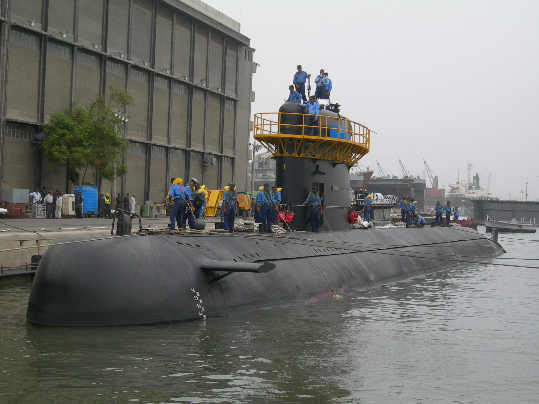 PNS Hamza, the Agosta-90Bravo/Khalid-class submarine, in Karachi Naval Dockyard for her sea and depth test trials in 2006